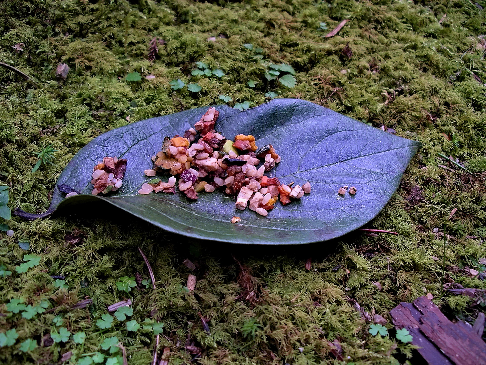 An Obon offering at Okunoin Cemetery, Koyasan. Obon or Bon is a Japanese Buddhist holiday to honor the departed spirits of one's ancestors.